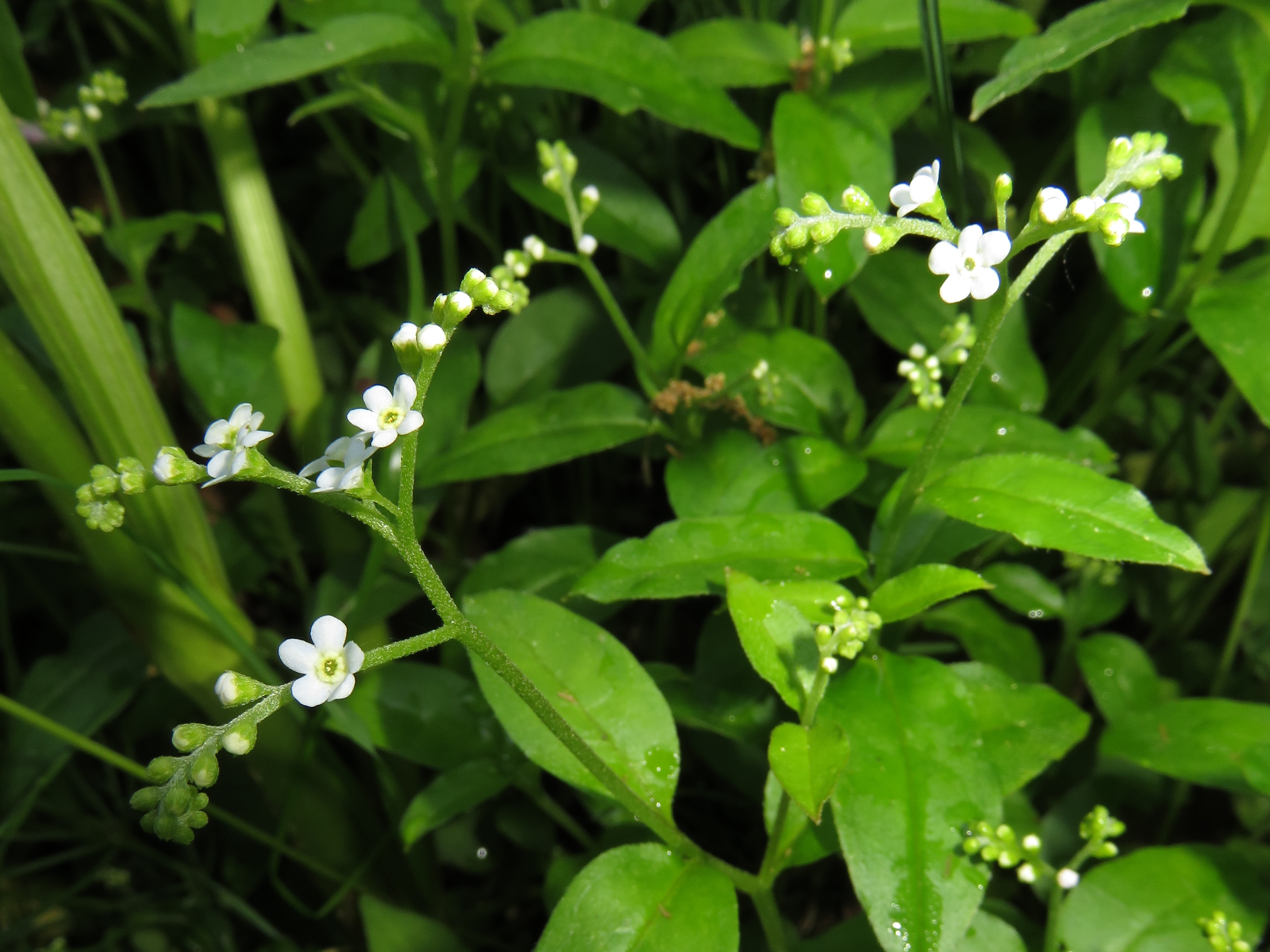 Trigonotis brevipes, Aizu area, Fukushima pref., Japan